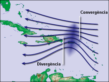 Derivated work from this image, with Portuguese dialogs.